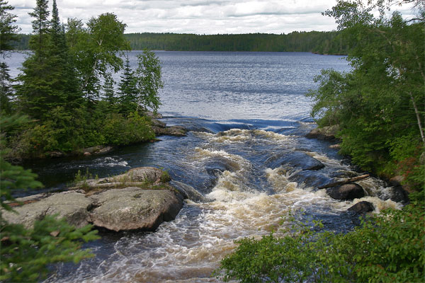 Tulibi Falls